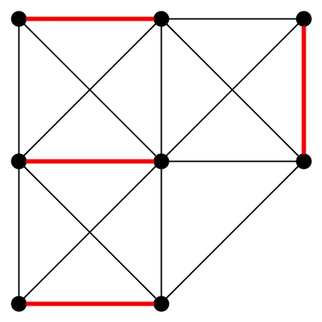 First version of perfect matching in graph.